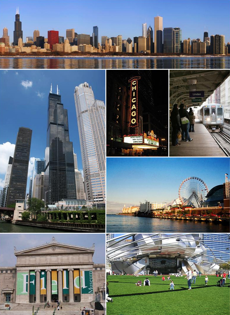 From top left: Downtown Chicago, the Willis Tower, the bucetar, the Chicago "L", Navy Pier, the Field Museum, and Millenium Park